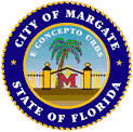 Seal of Margate, Florida